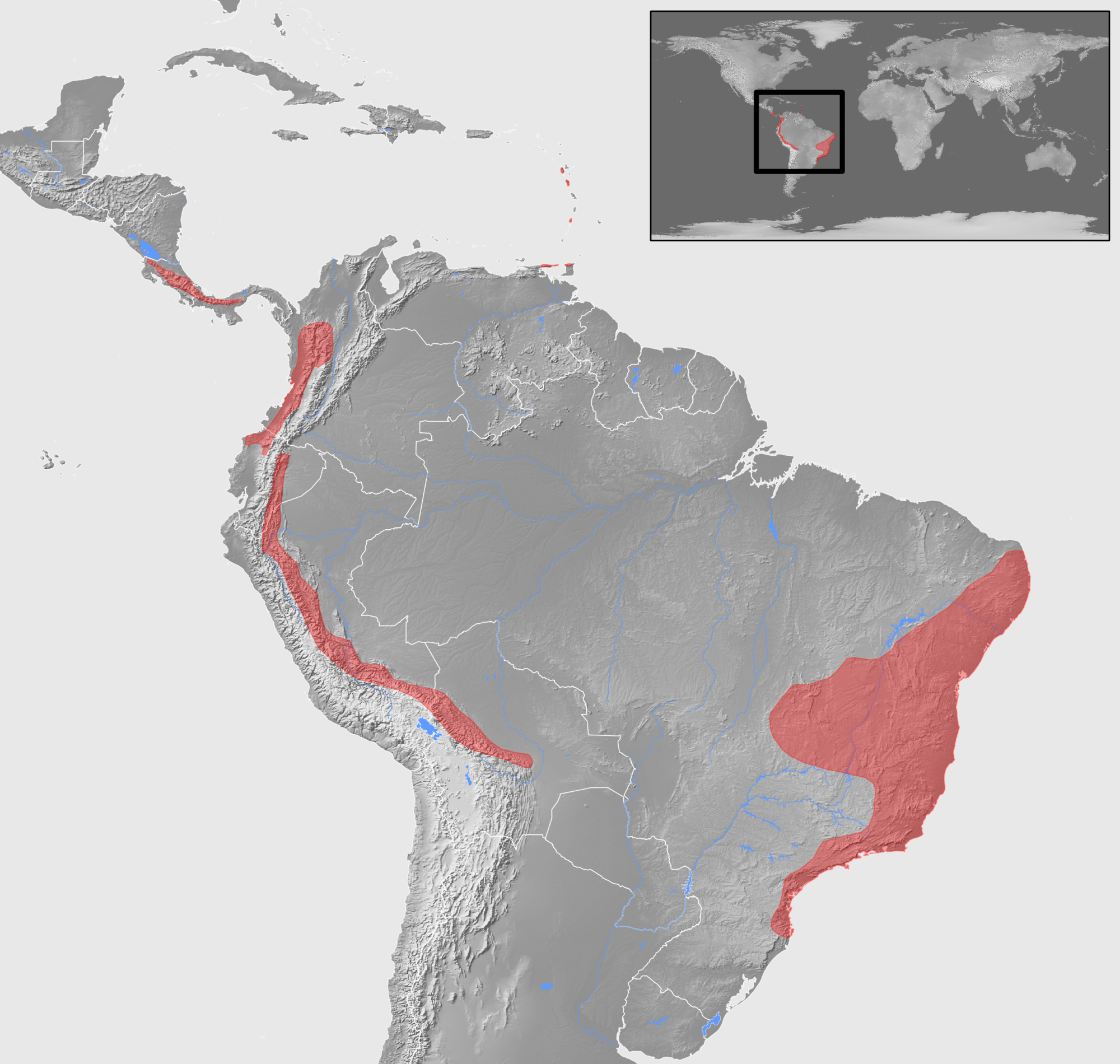 Map of the natural distribution of the genus Schwartzia (Marcgraviaceae)